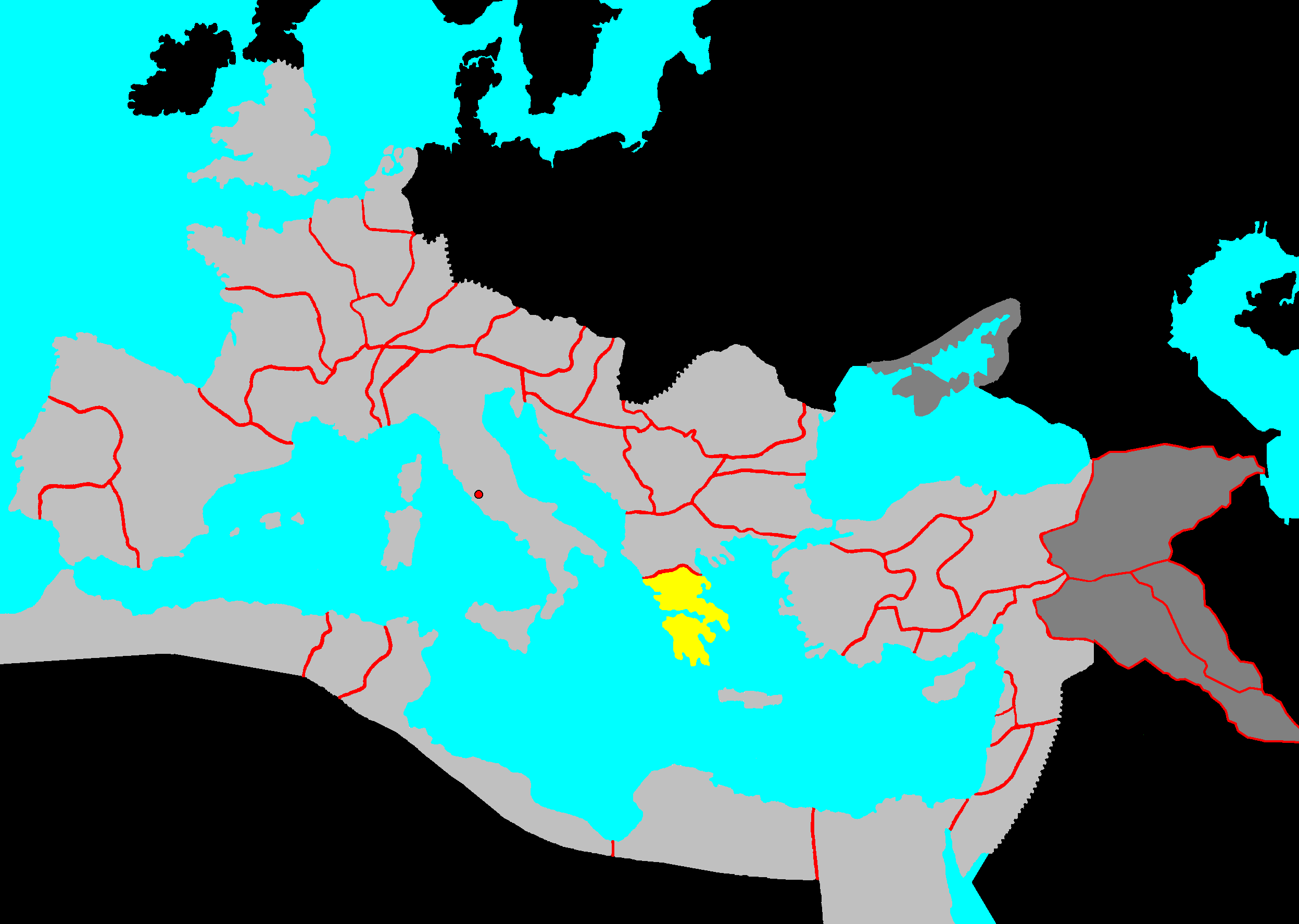 provinces of the Roman Empire (Imperium Romanum)